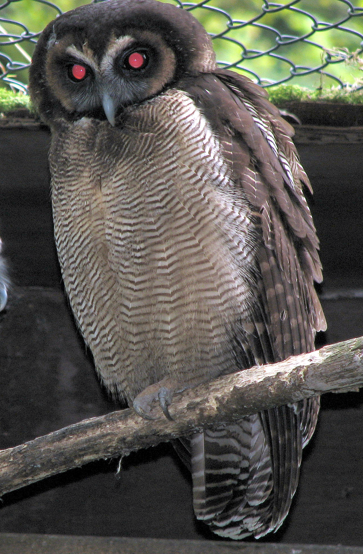 Brown Wood Owl Strix leptogrammica at the Cotswold Wildlife Park, Oxfordshire, England. (I believe the eyes are not really red, this is a reflection of my camera flash).